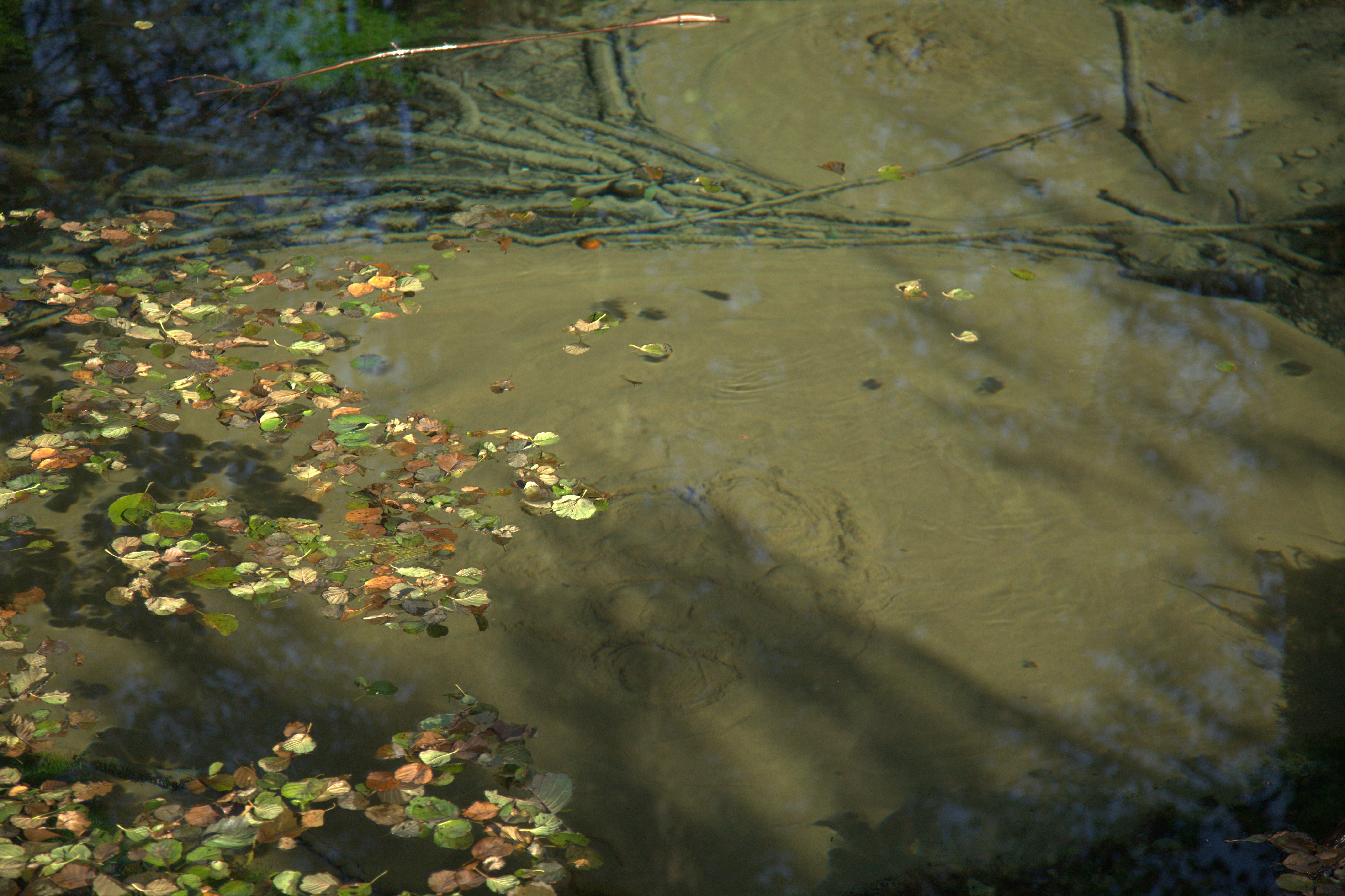 Picture of the "boiling" sand at the bottom of the bigger of Kalle brunnar which is part of Höstena källor in Falkenbergs municipaty, Sweden. The depth to the sand is aproxiamely 1m but according to the signposts at the site the depth under the sand is very deep (more than several meters).